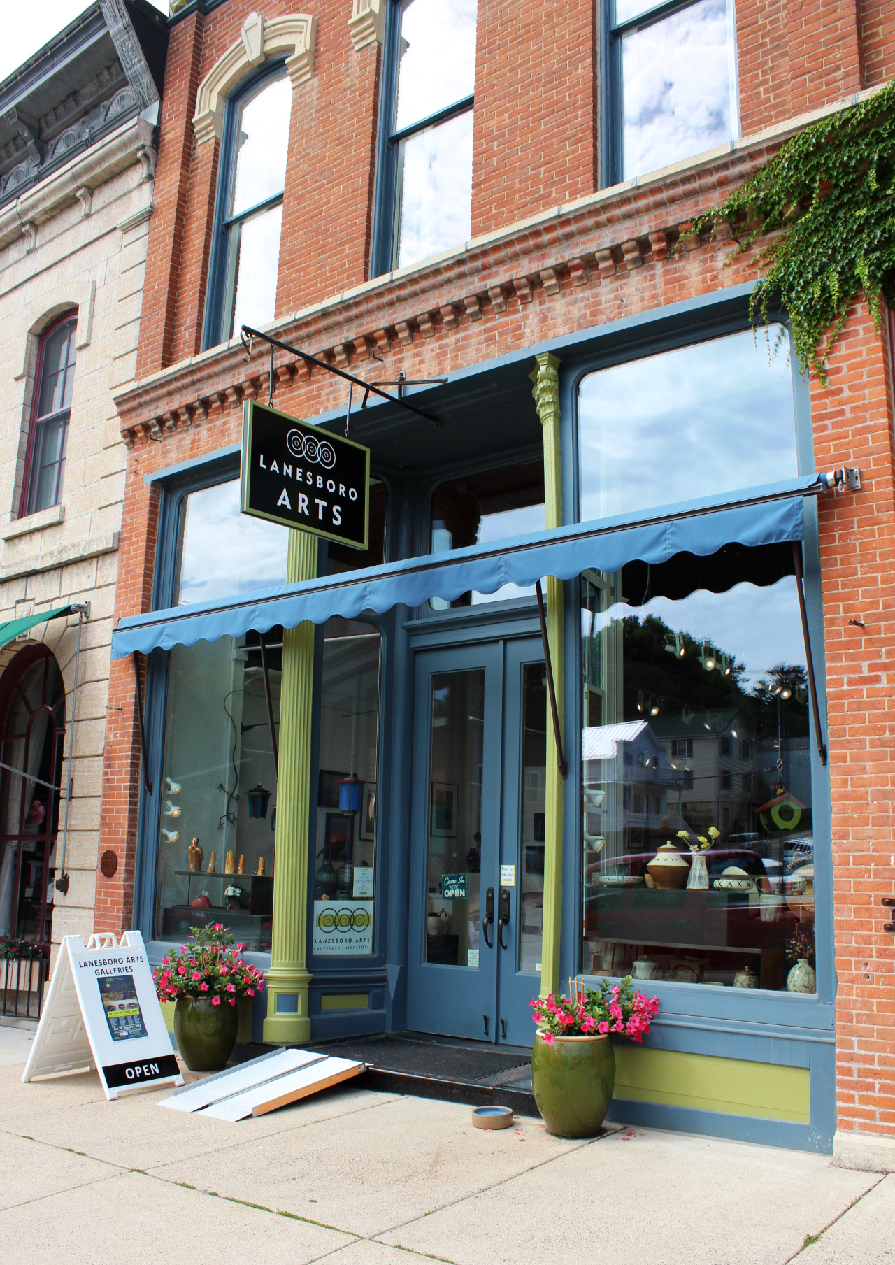 Historically accurate exterior facade restoration on the Lanesboro Arts Gallery Buidling